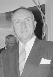 Former rower and political candidate Ben Waters